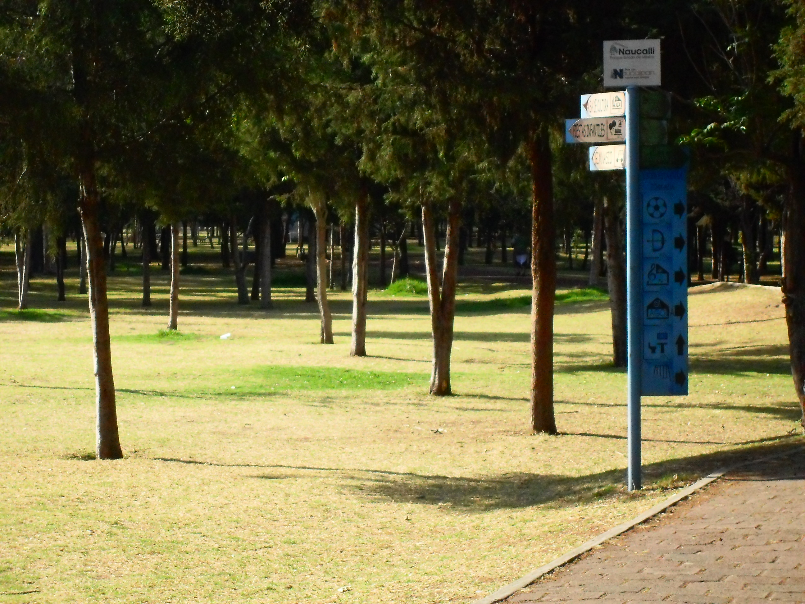 Naucalli Park in Naucalpan, Mexico State.